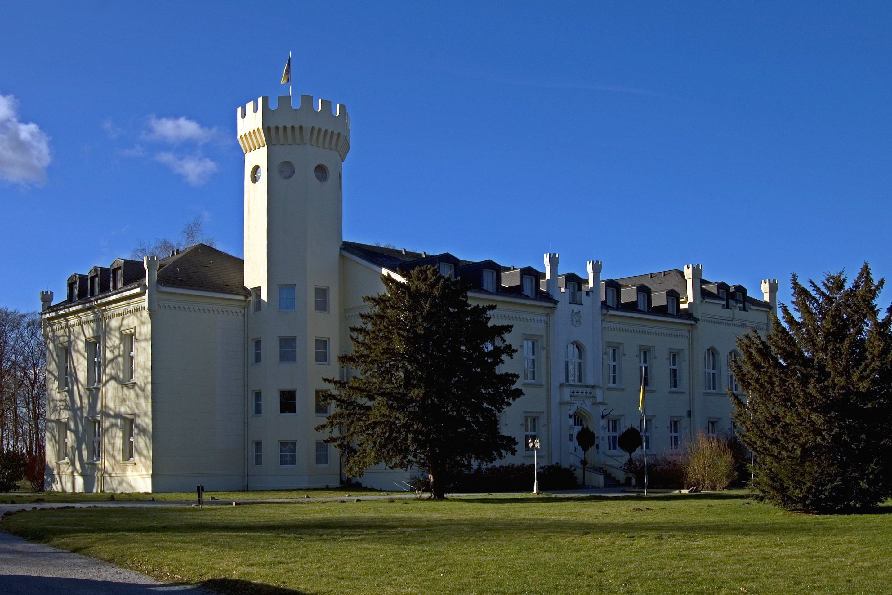 Castle Hohendorf near Groß Mohrdorf in Nordvorpommern, Germany